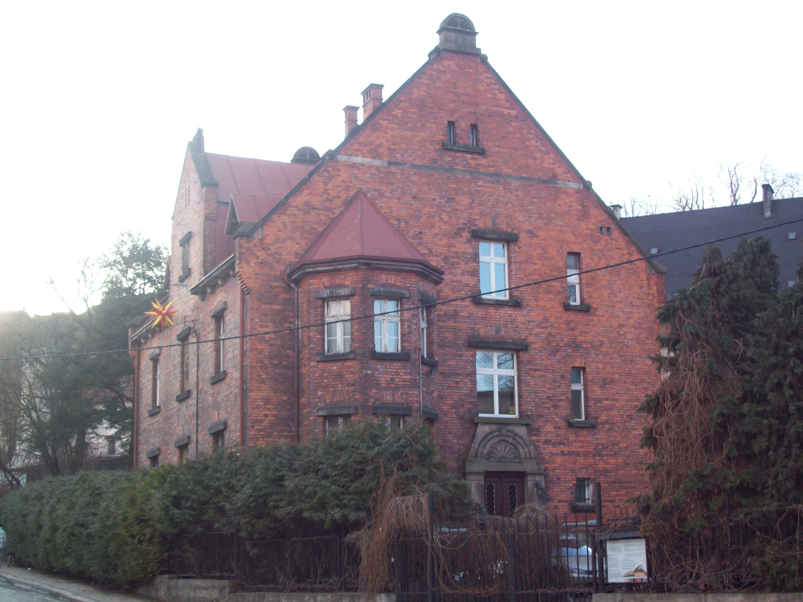 Evangelical Lutheran parish in Klodzko, at Railway Street in Kłodzko